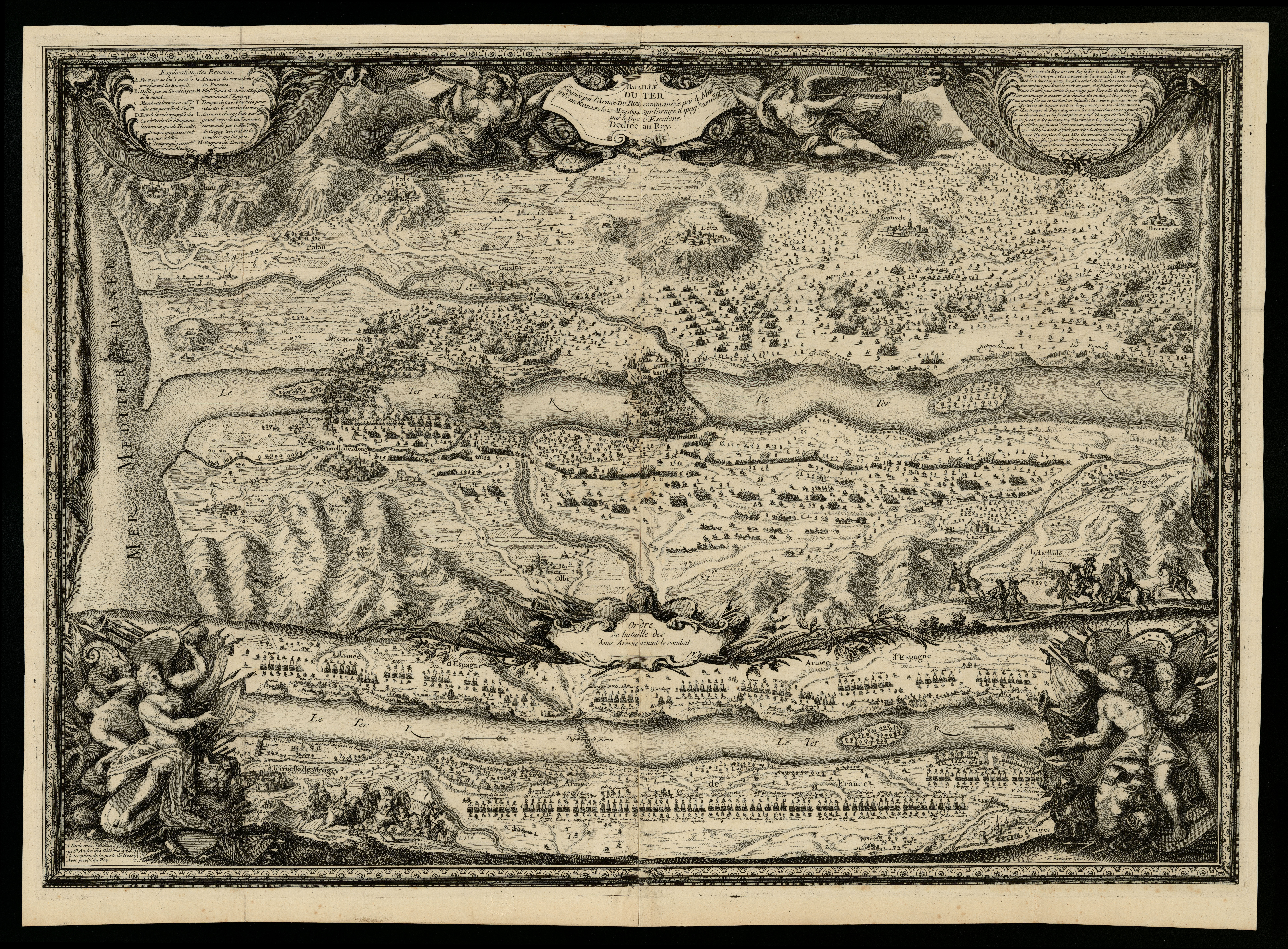 Battle of Torroella won by the french army led by Marshal duke of Noailles